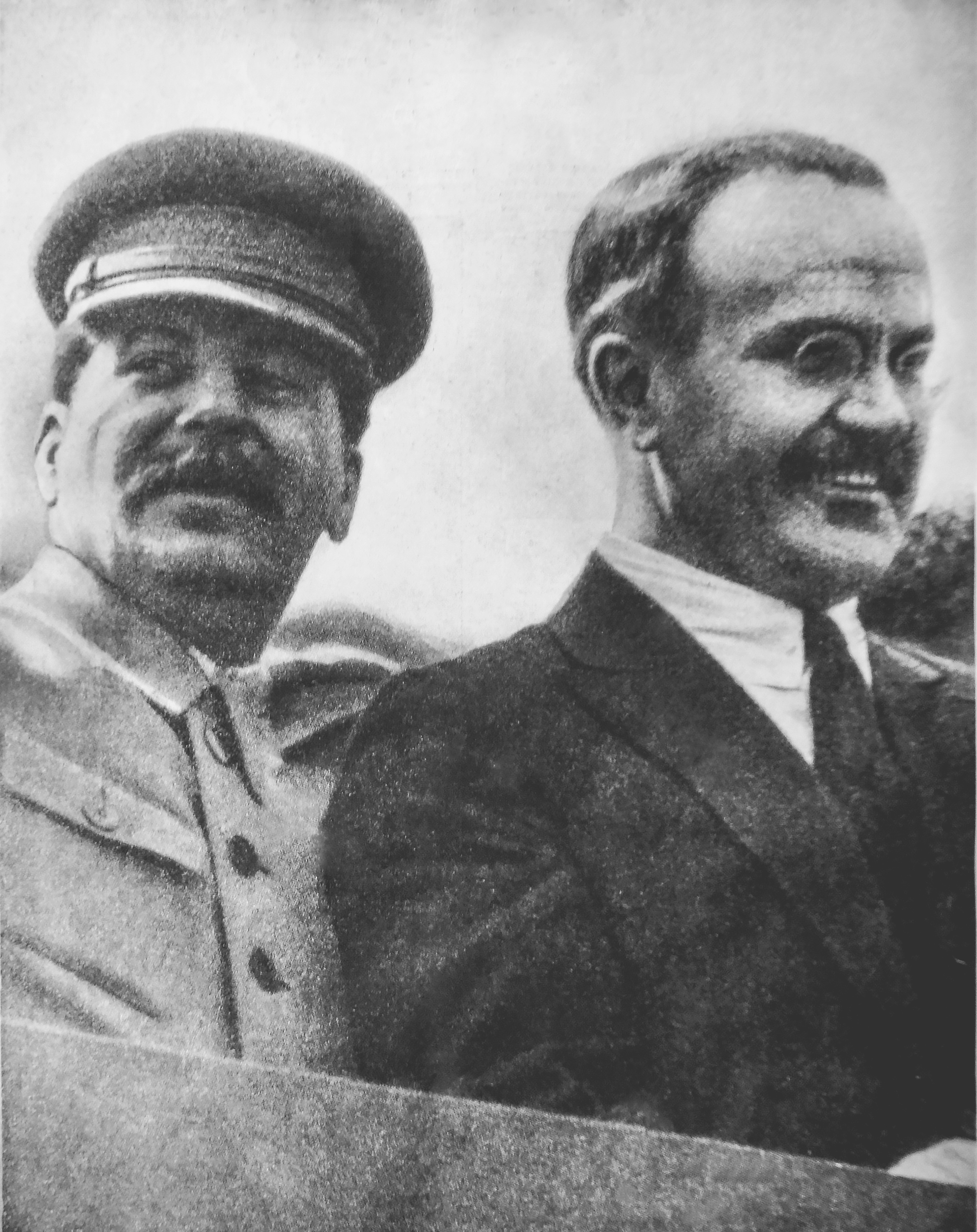 Vycheslav Molotov (Skrybin), Chairman of the Council of People's Commissars (Prime Minister) and Joseph Stalin, General Secretary of the Communist Party. Context: two most powerful managers of USSR. While there were no formal subordination, Stalin was de-facto head of state. Molotov became a protégé of and his close adherent. Active participants in the Great Purge: both as Politburo members approved mass execution/deportation: NKVD Order № 00447 of July 30, 1937. Both signed mass execution lists (Album procedure): Molotov signed 373 lists and Stalin signed 362 lists. Out of the 28 People's Commissars (Ministers) in Molotov's Government, 20 were executed on the orders of Molotov and Stalin. Molotov’s wife Polina Zhemchuzhina was repressed for communicating with Golda Meir, the first Israeli envoy to the USSR at the time.